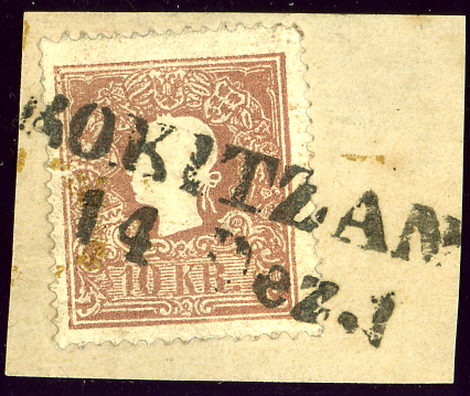 Austrian KK 10 kreuzer stamp, issue 1859, linear cancelled ROKITZAN (Rokycany, Bohemia) - Mueller RL-r 12 Points